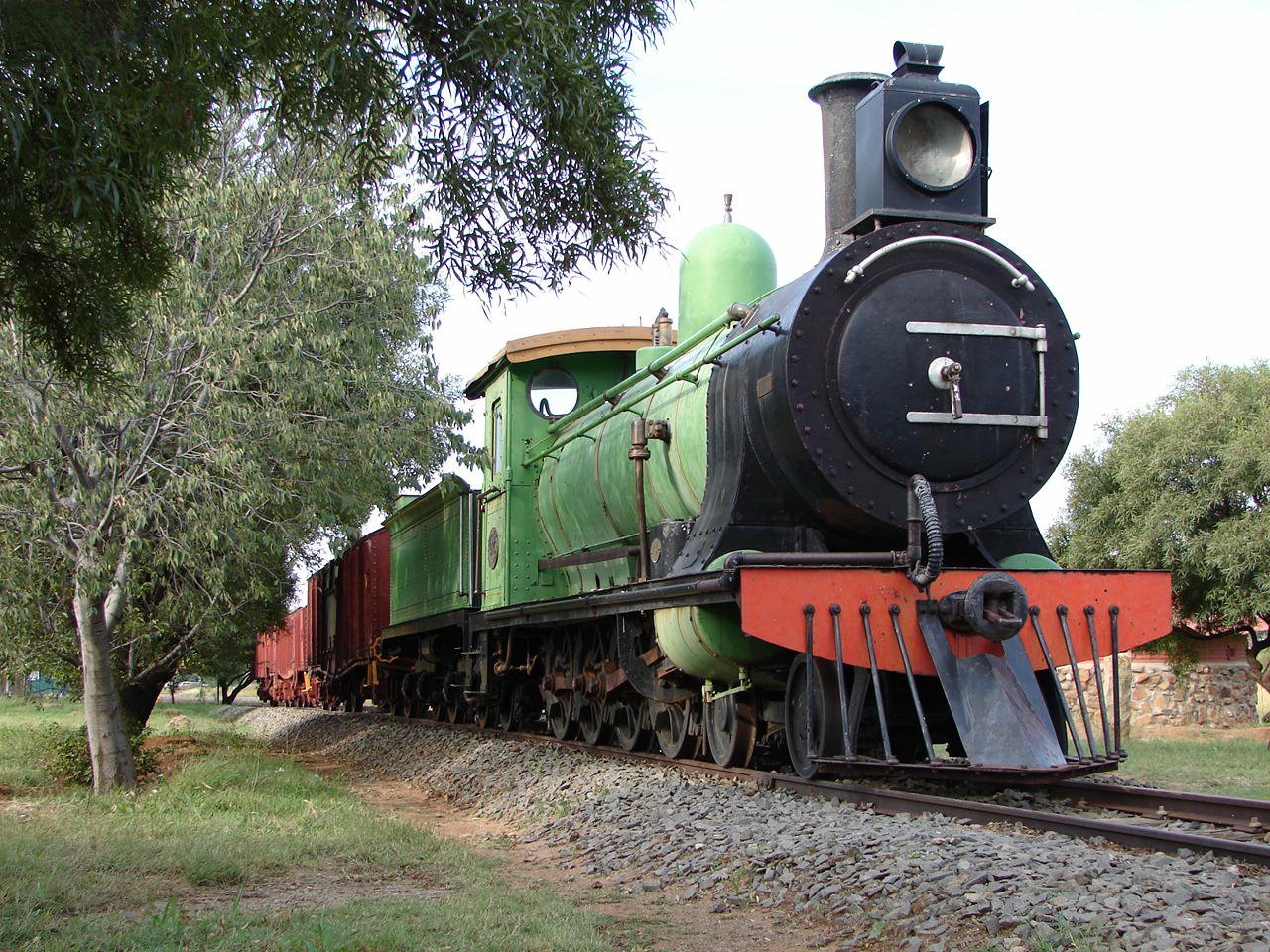 Ex Cape Government Railways Class 7 344 (4-8-0) South African Railways Class 7 975 (4-8-0) Builder's Number: Neilson 4469 Location: Bloemfontein, Free State